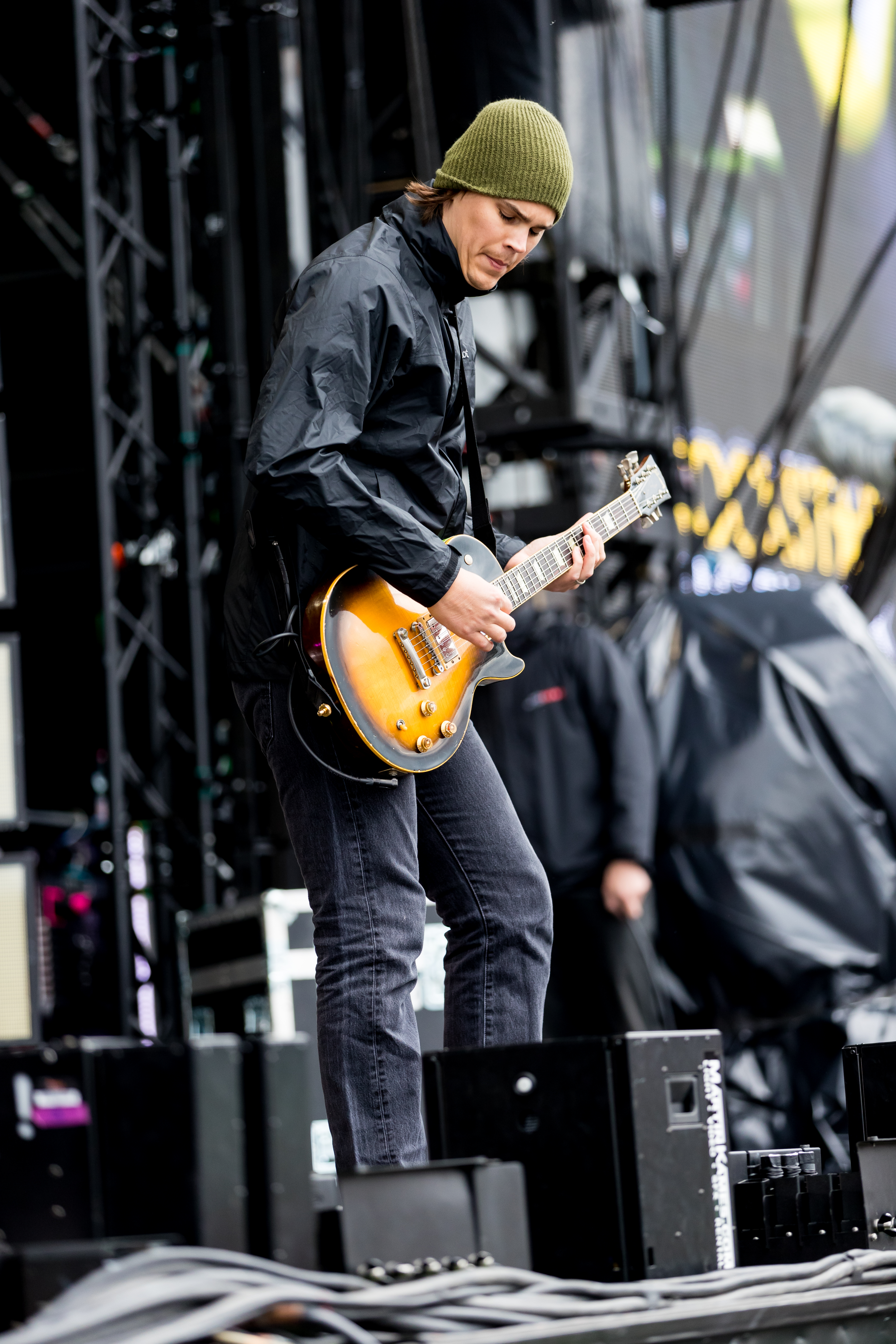 Underoath during Rock am Ring ( at Nürburgring, Rheinland-Pfalz, Germany on 2019-06-08, Photo: Sven Mandel Promotion by Live Nation (